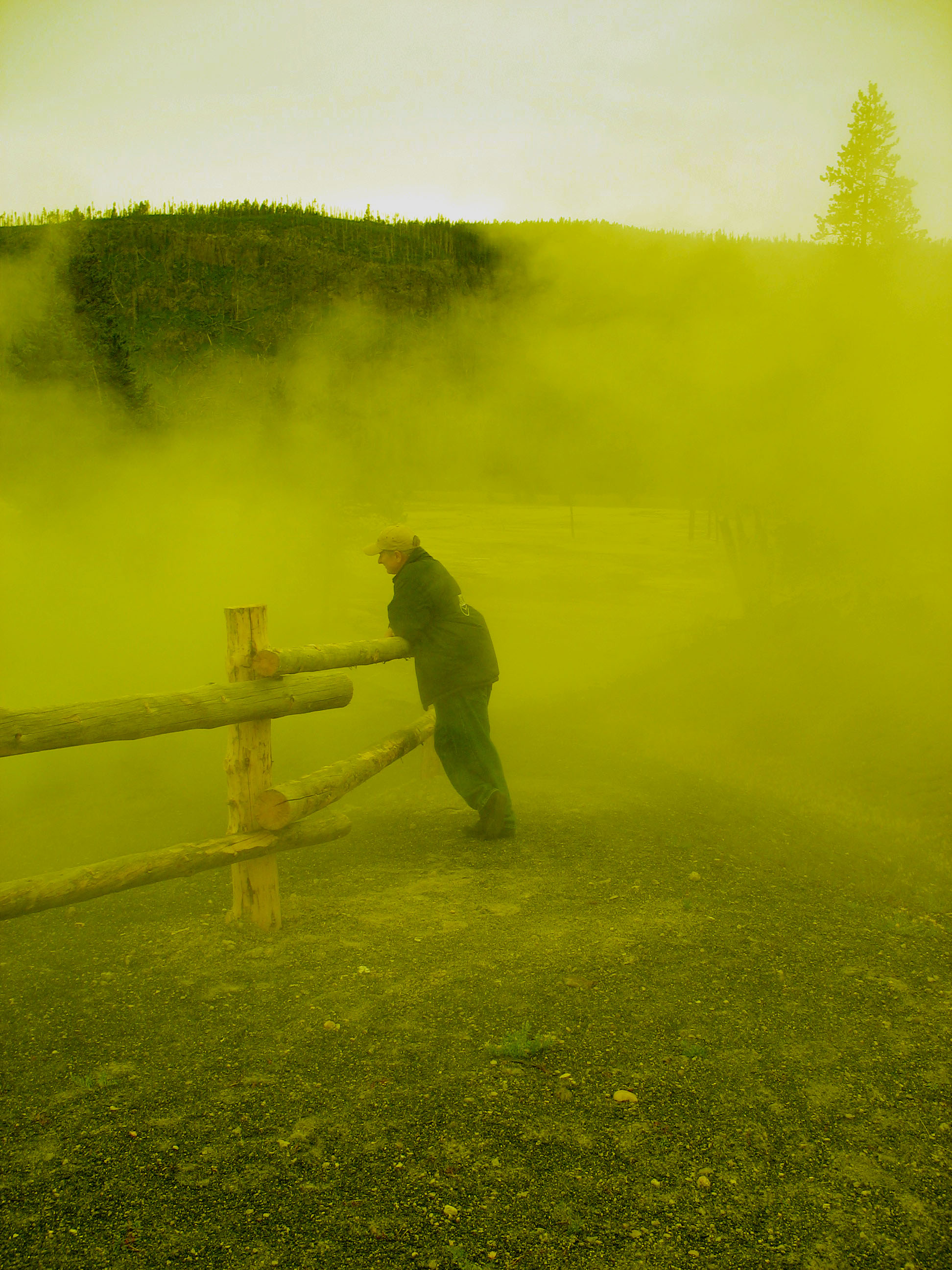 Yellow haze at Norris Geyser Basin, Yellowstone